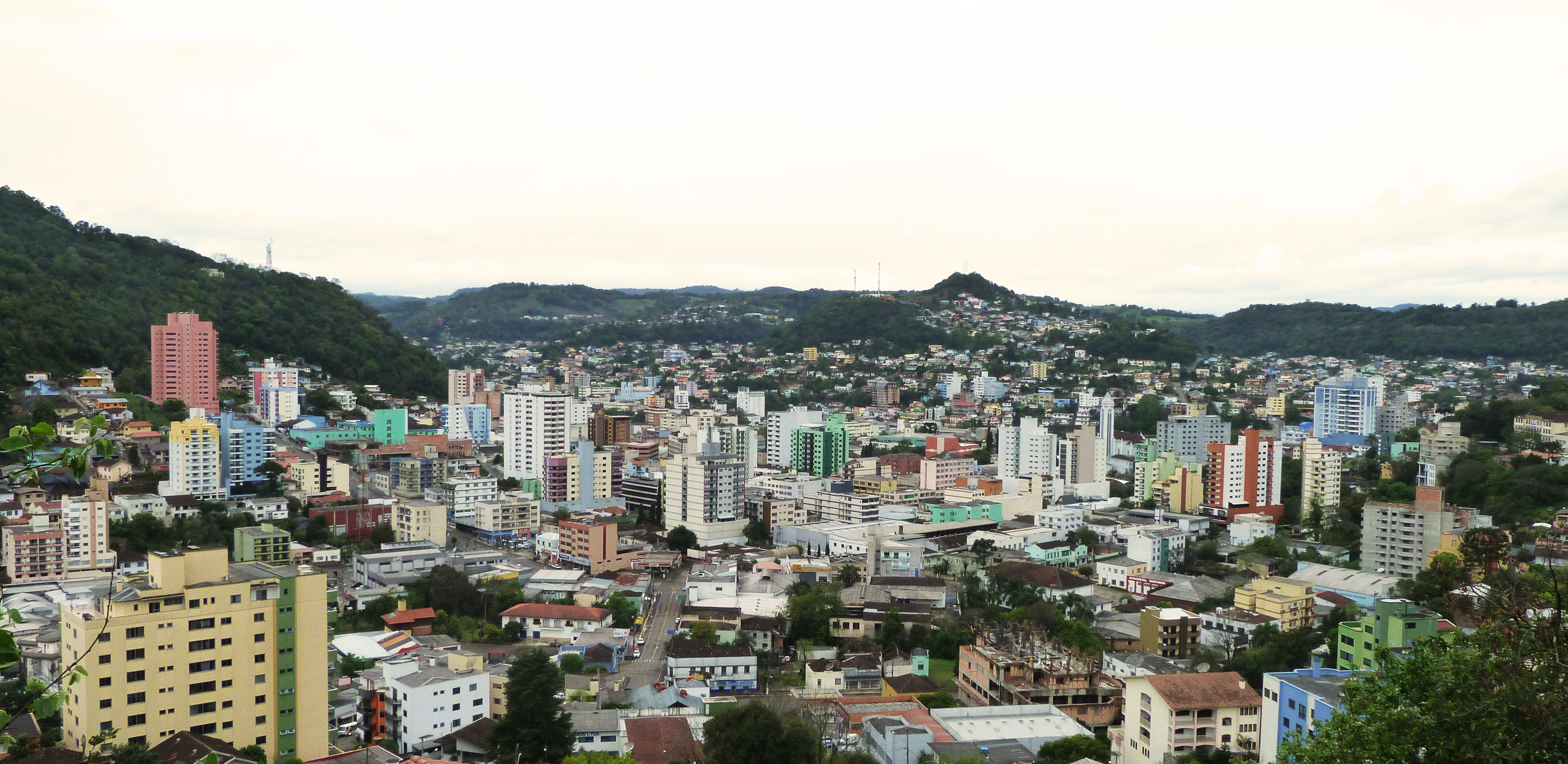 Partial view of Joaçaba-SC-Brazil.